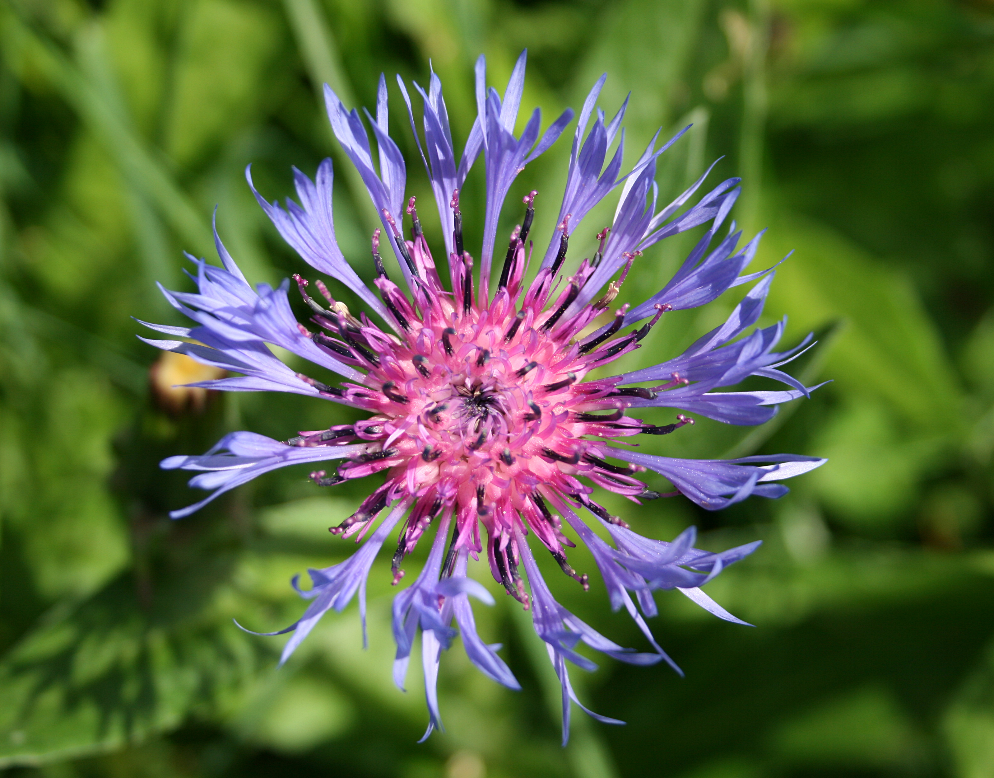 perennial cornflower